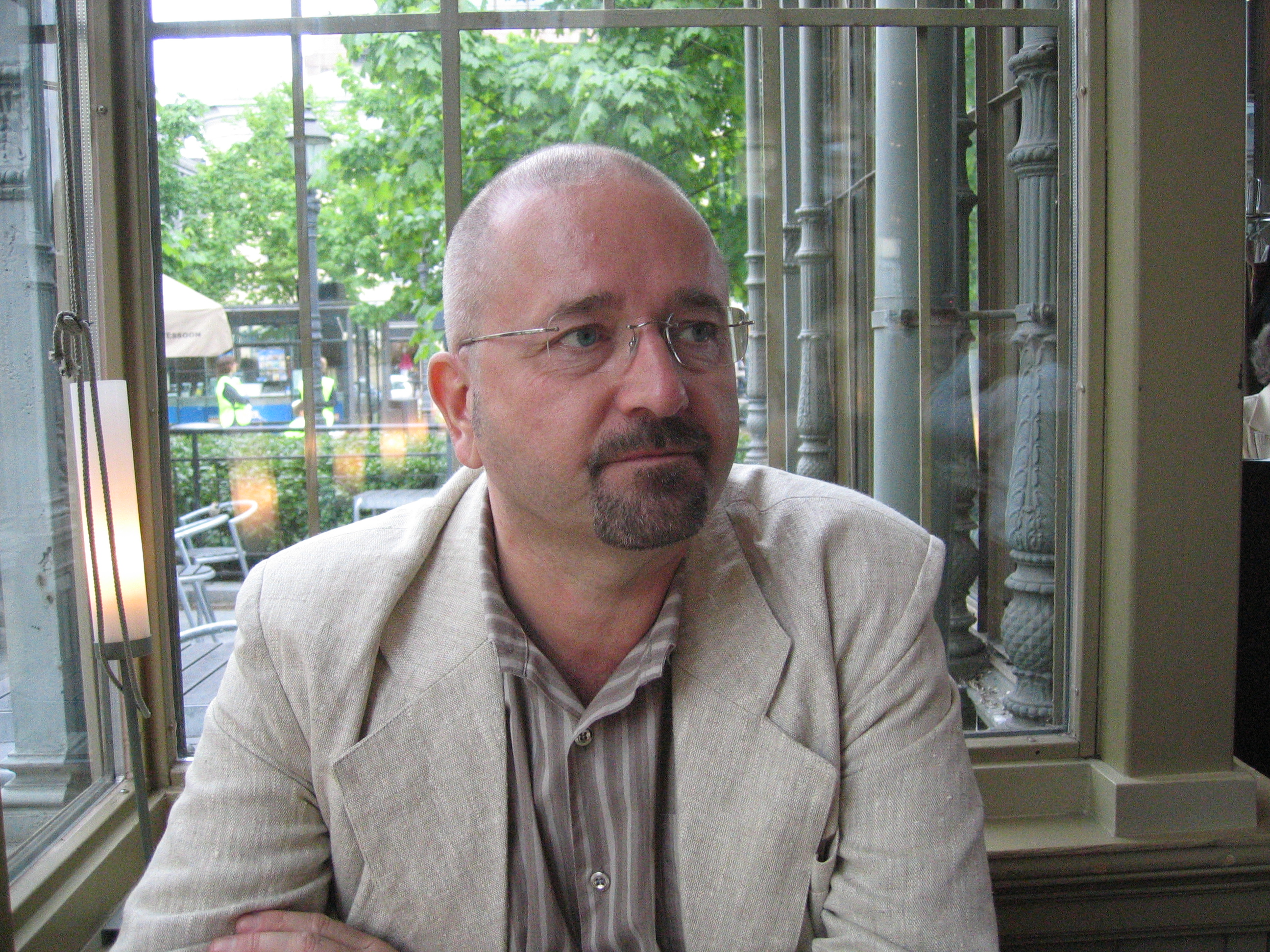 Per Bäckström, restaurant Kappeli, Helsinki May 2010.